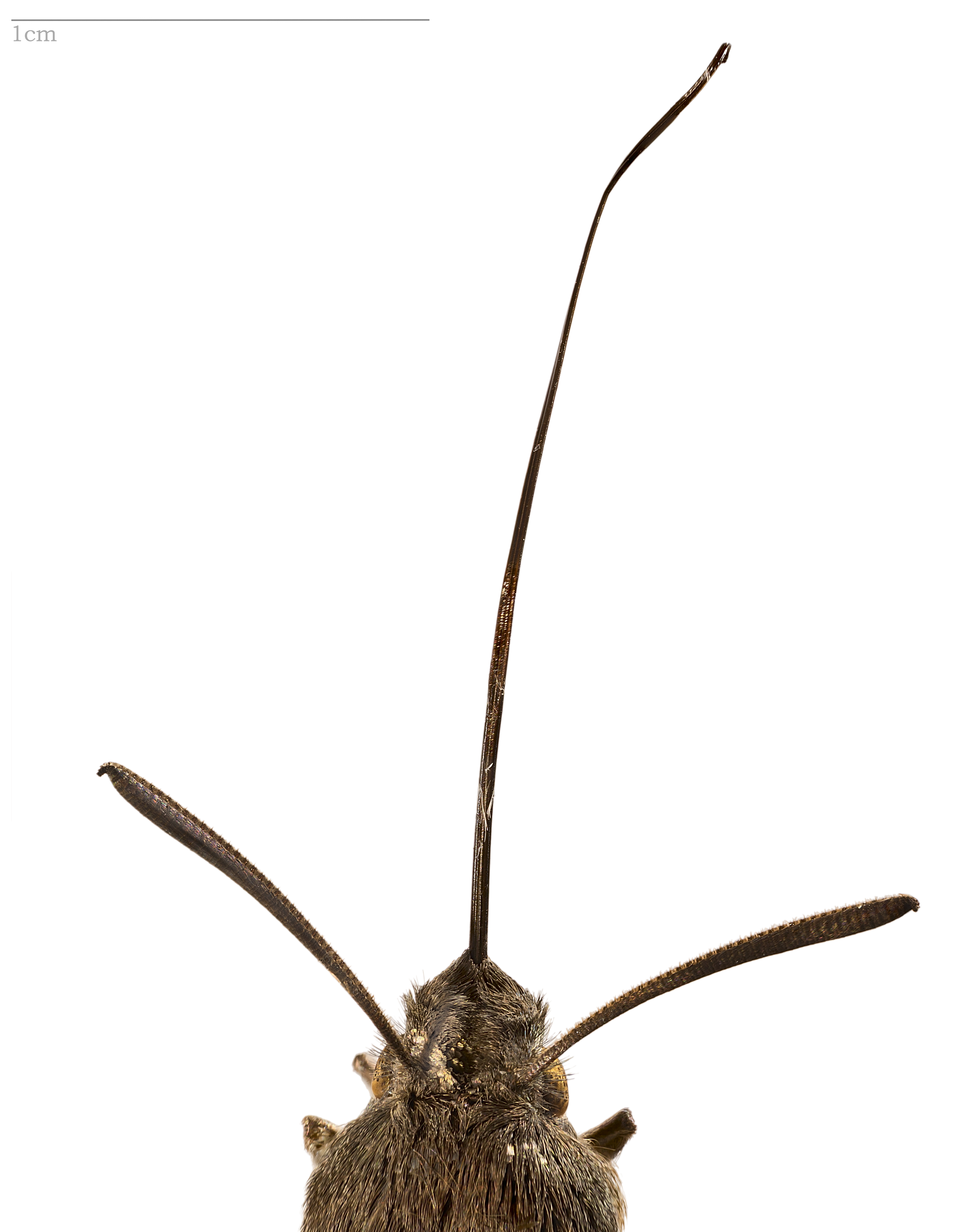 Hummingbird Hawk-moth - View of the proboscis extended, which inspired the name of the animal. Literally the long tongue.